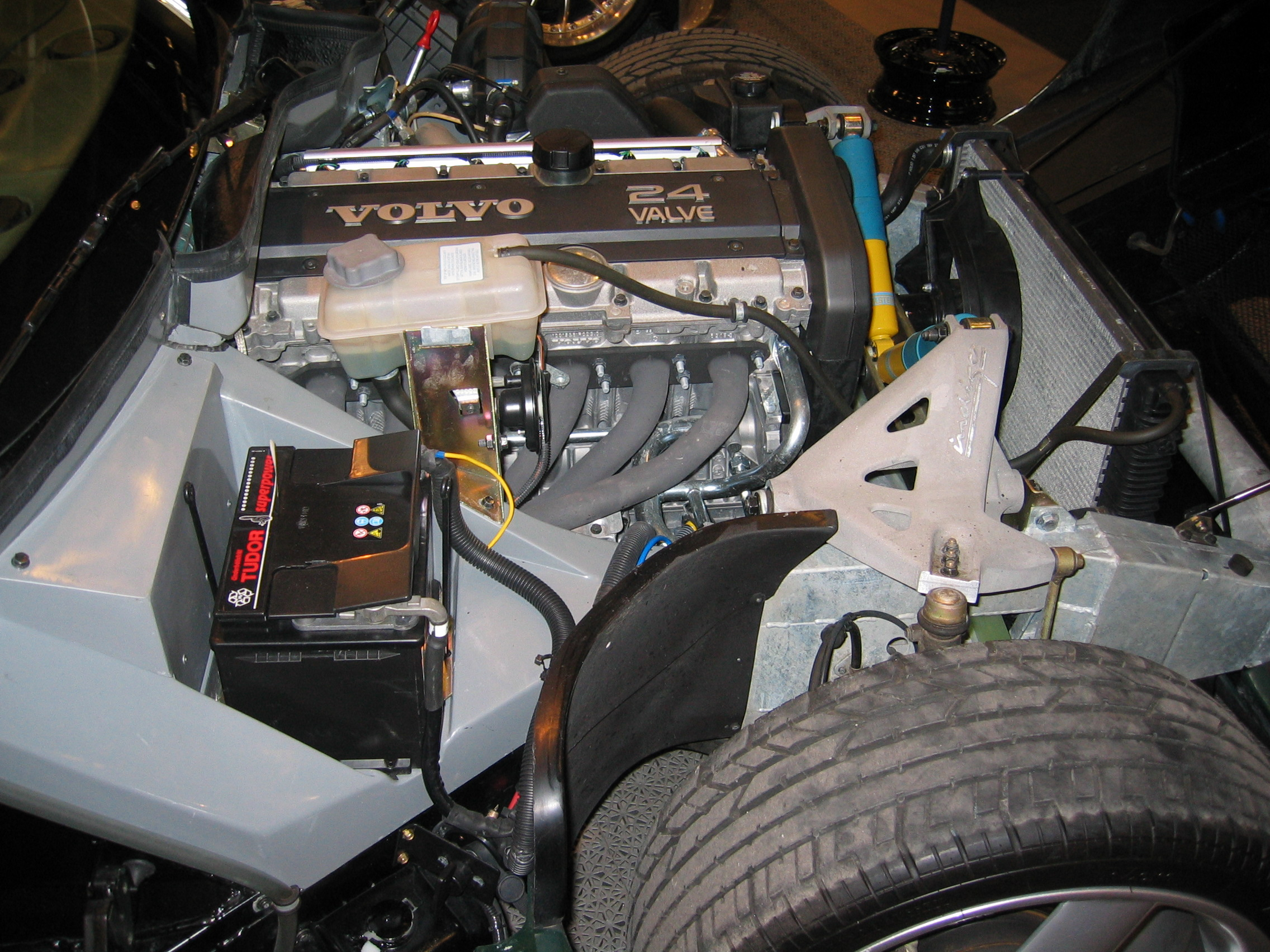 Indigo 3000 engine.